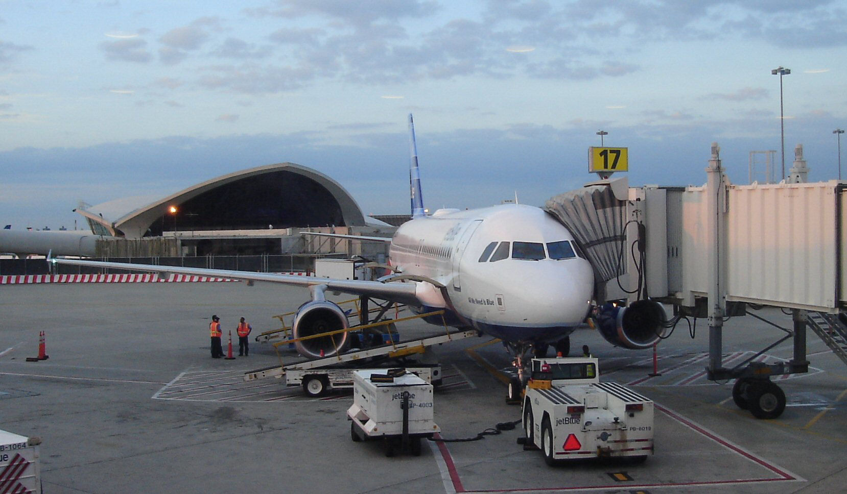 JetBlue airways A320 at JFK airport terminal6